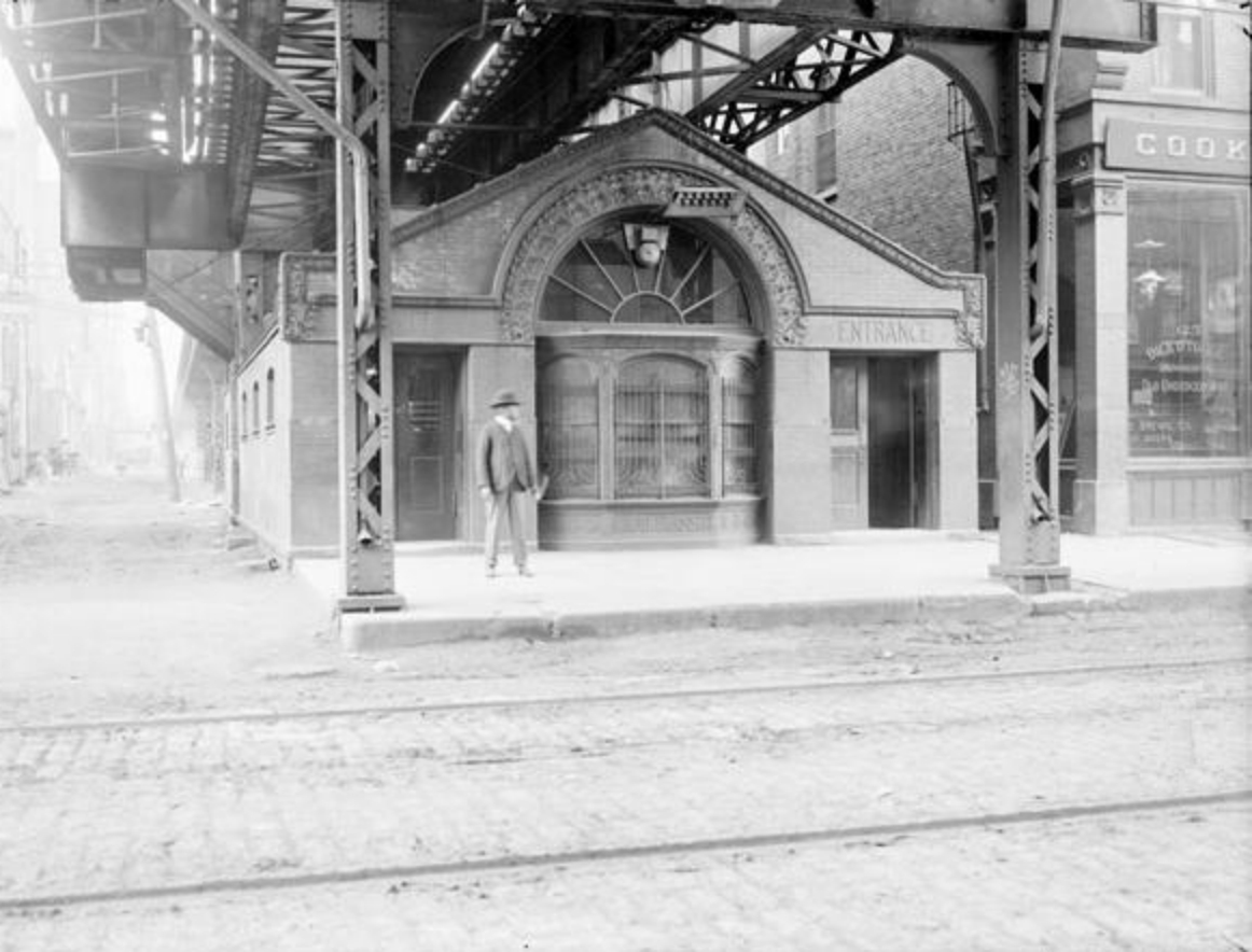 Image of a man standing in front of the West 18th Street elevated train station, overhead tracks and alley in the Near South Side community area of Chicago, Illinois.